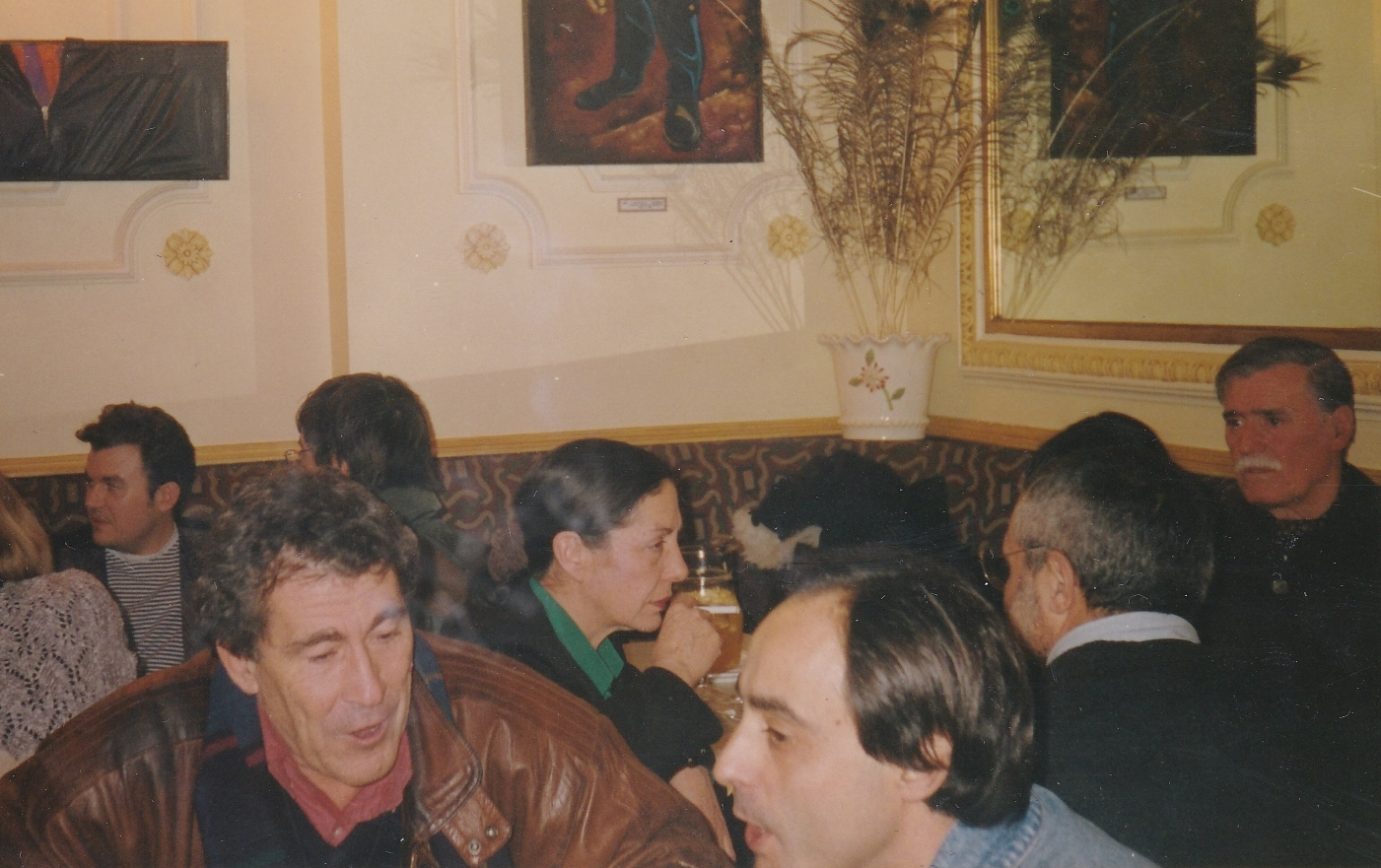 José Antonio Garcia-Blanco Peinador en un Acto Cultural en 1992